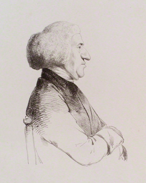 Charles Agar, 1st Earl of Normanton (1736-1809)